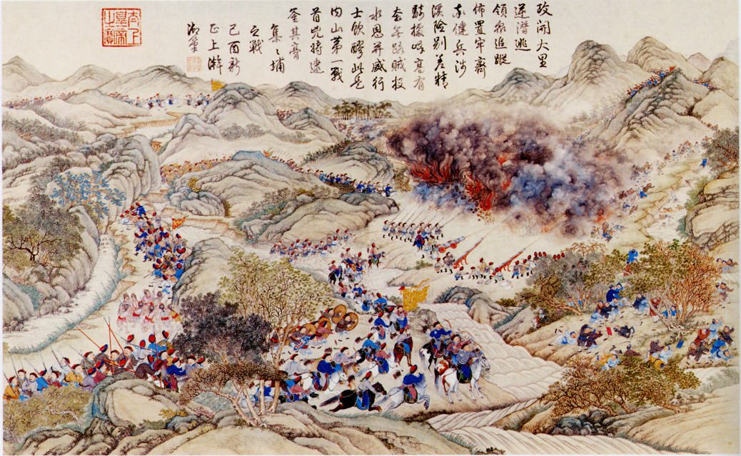 A scene of the Taiwanese campaign 1787-1788